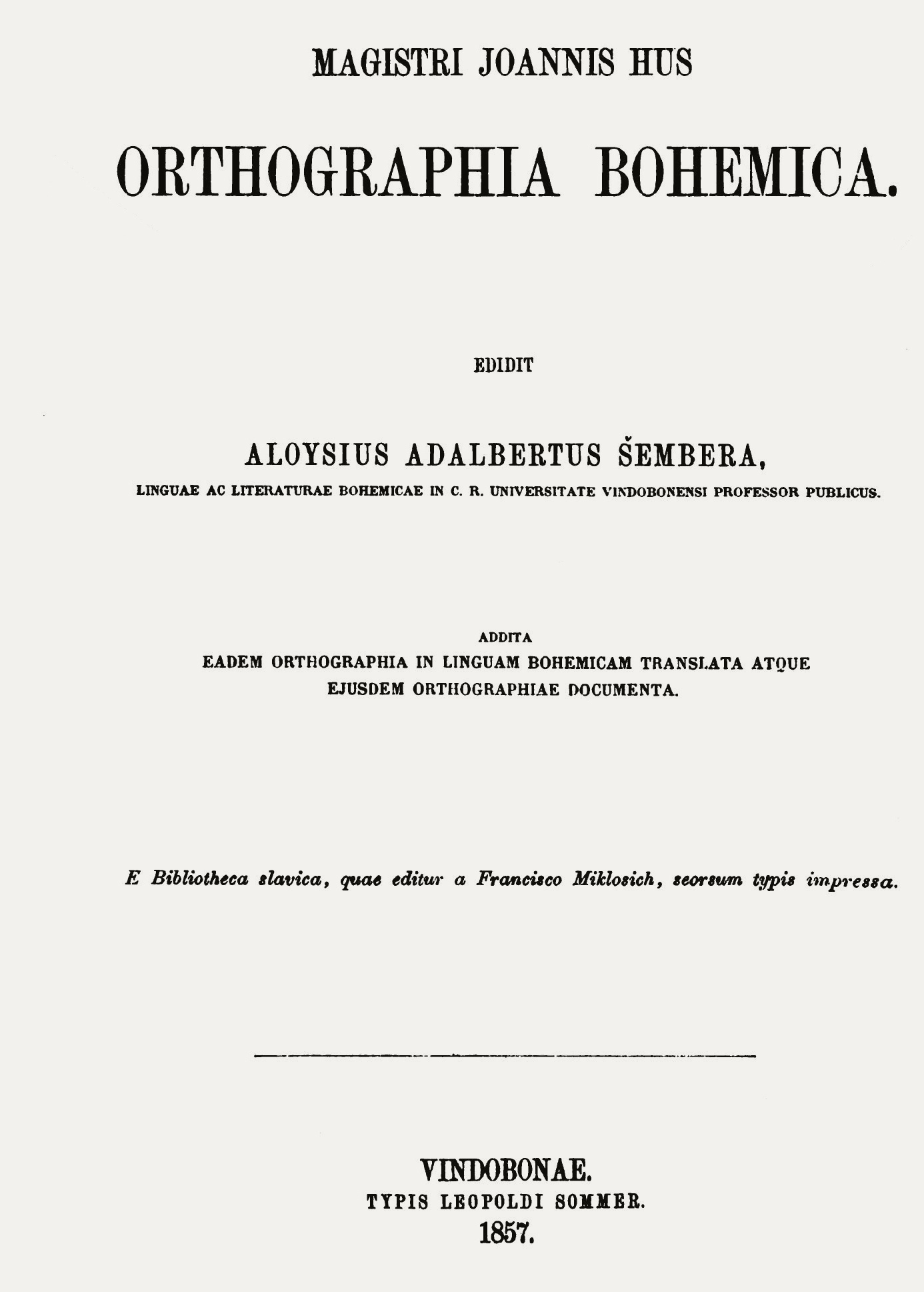 Cover of the book: Alois Šembera: Mistra Jana Husi Ortografie Česká (Magistri Joannis Hus Orthographia Bohemica). Wien 1857